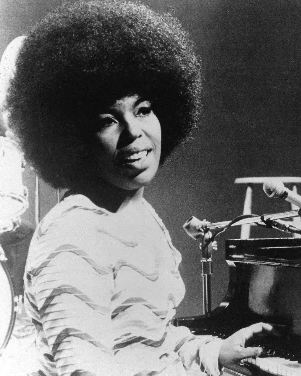 Photo of singer Roberta Flack.